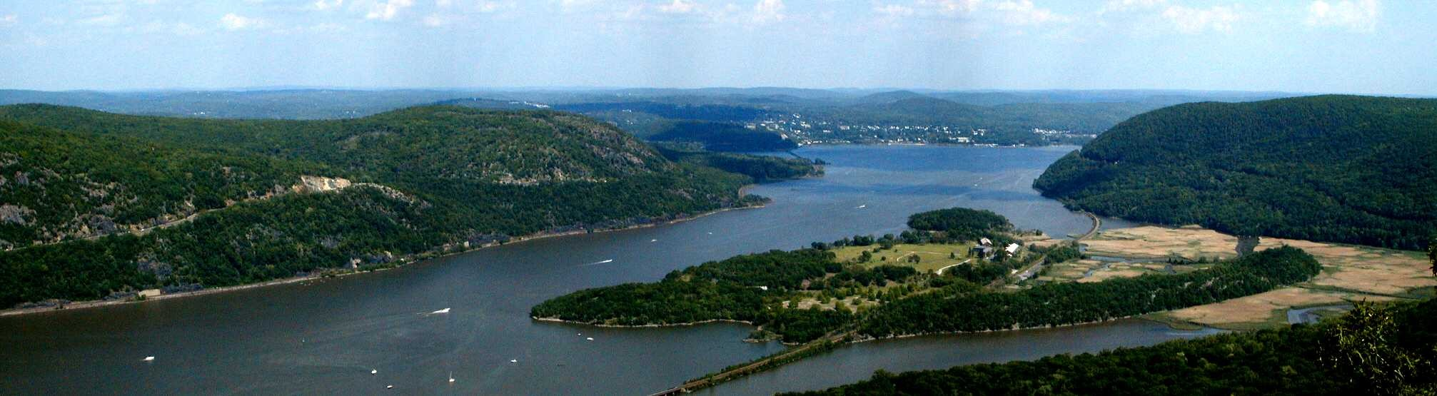 View from Bear Mountain, New York. Taken by User:Mwanner, 5/29/1999.